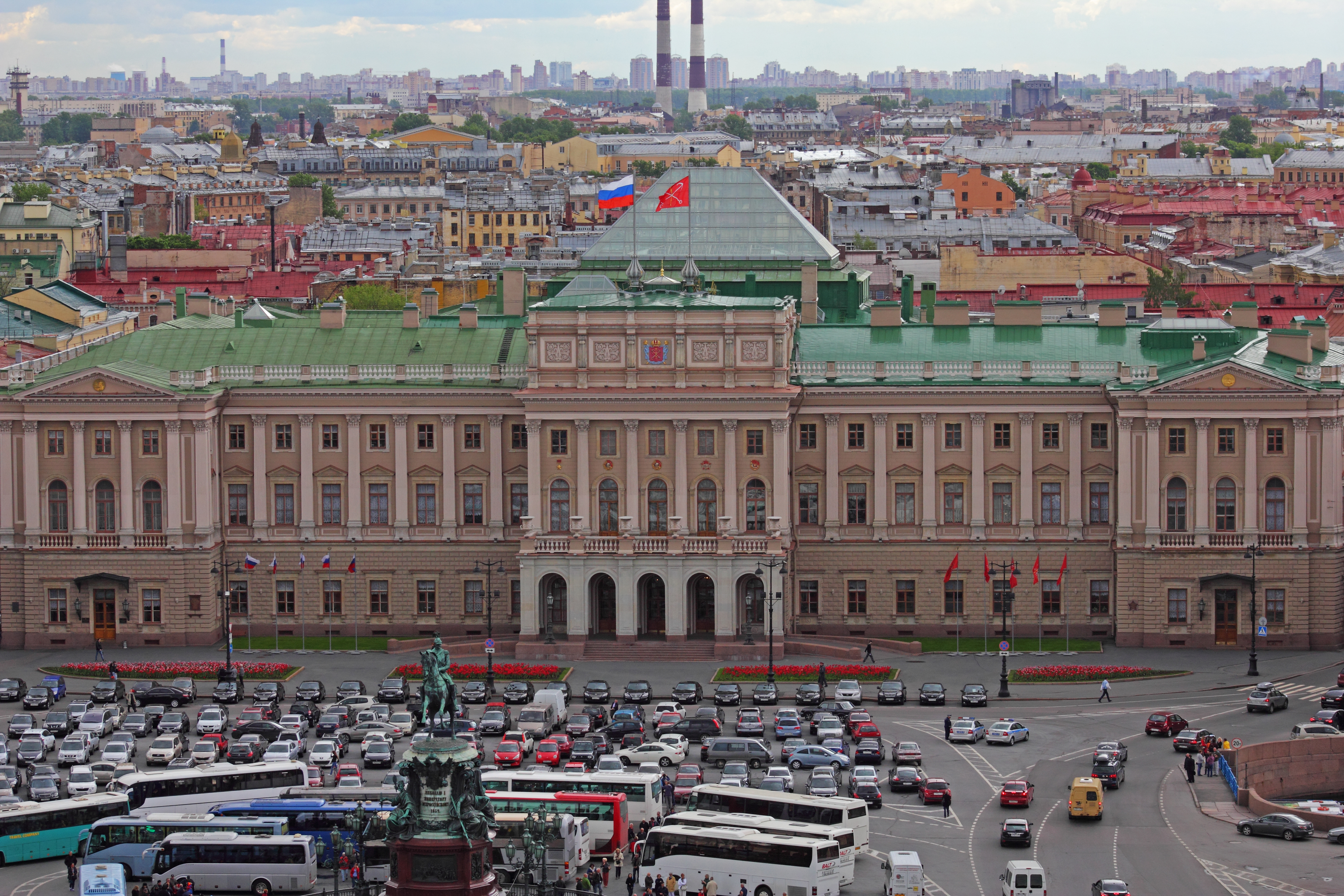 Saint Petersburg, Russia. View on Mariinsky Palace from the Cathedral of St. Isaac.